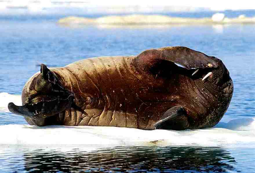 Scratching Atlantic walrus II (Odobenus rosmarus rosmarus) on ice flow in Foxe Basin (Nunavut, Canada)